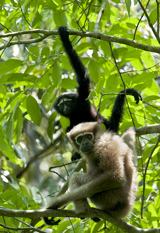 A female (front) and male (back) Western Hoolock Gibbon (Hoolock hoolock) from the Hoollongapar Gibbon Sanctuary in Assam, India.